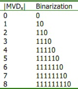 cabac binari